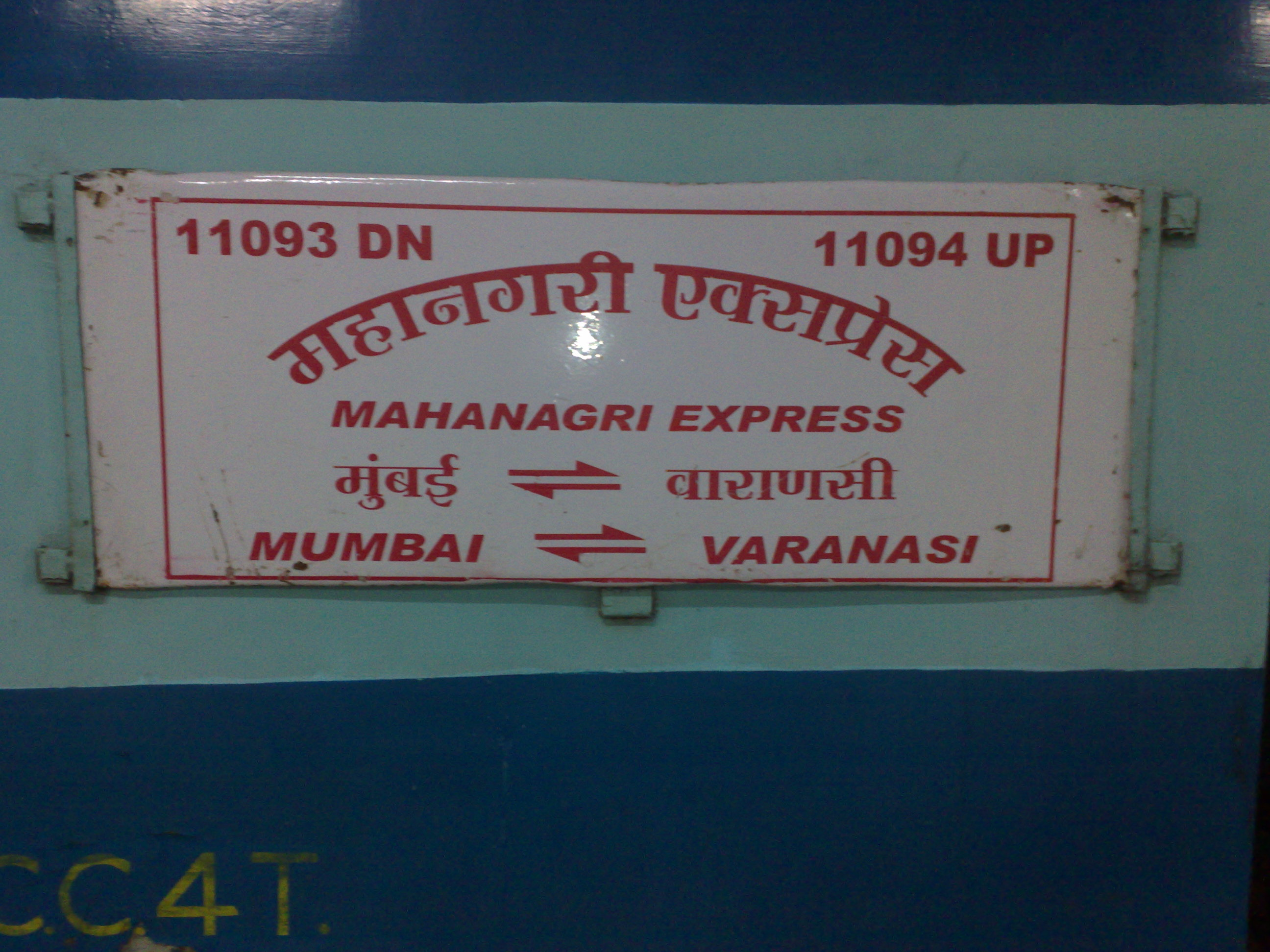 11093 Mahanagri Express